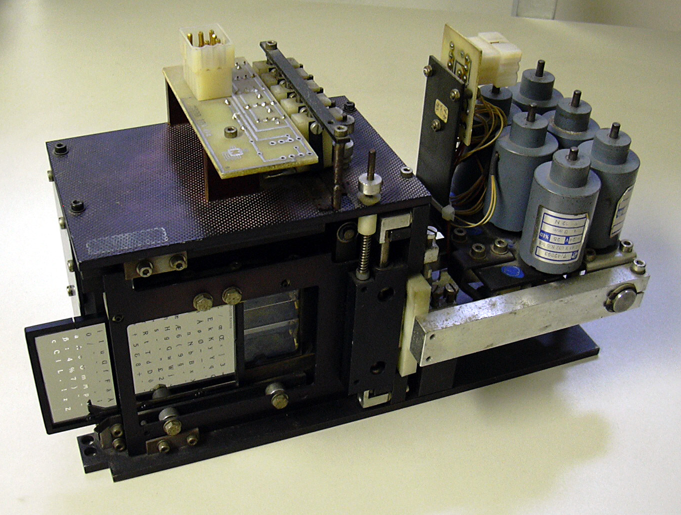 diatronic typesetting machine: the mechanism that controls the position of the type plate in the optical system